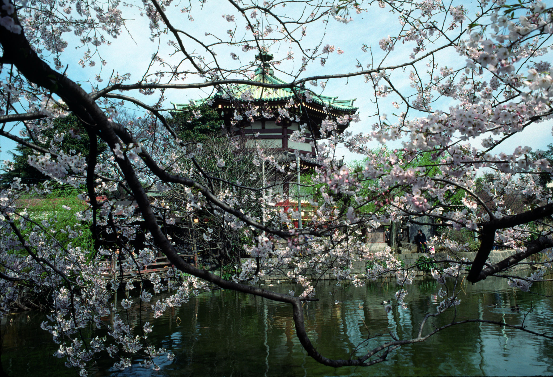 Shrine to Benten (Benzaiten) in Ueno Park, Tokyo, Japan. I took this photo.